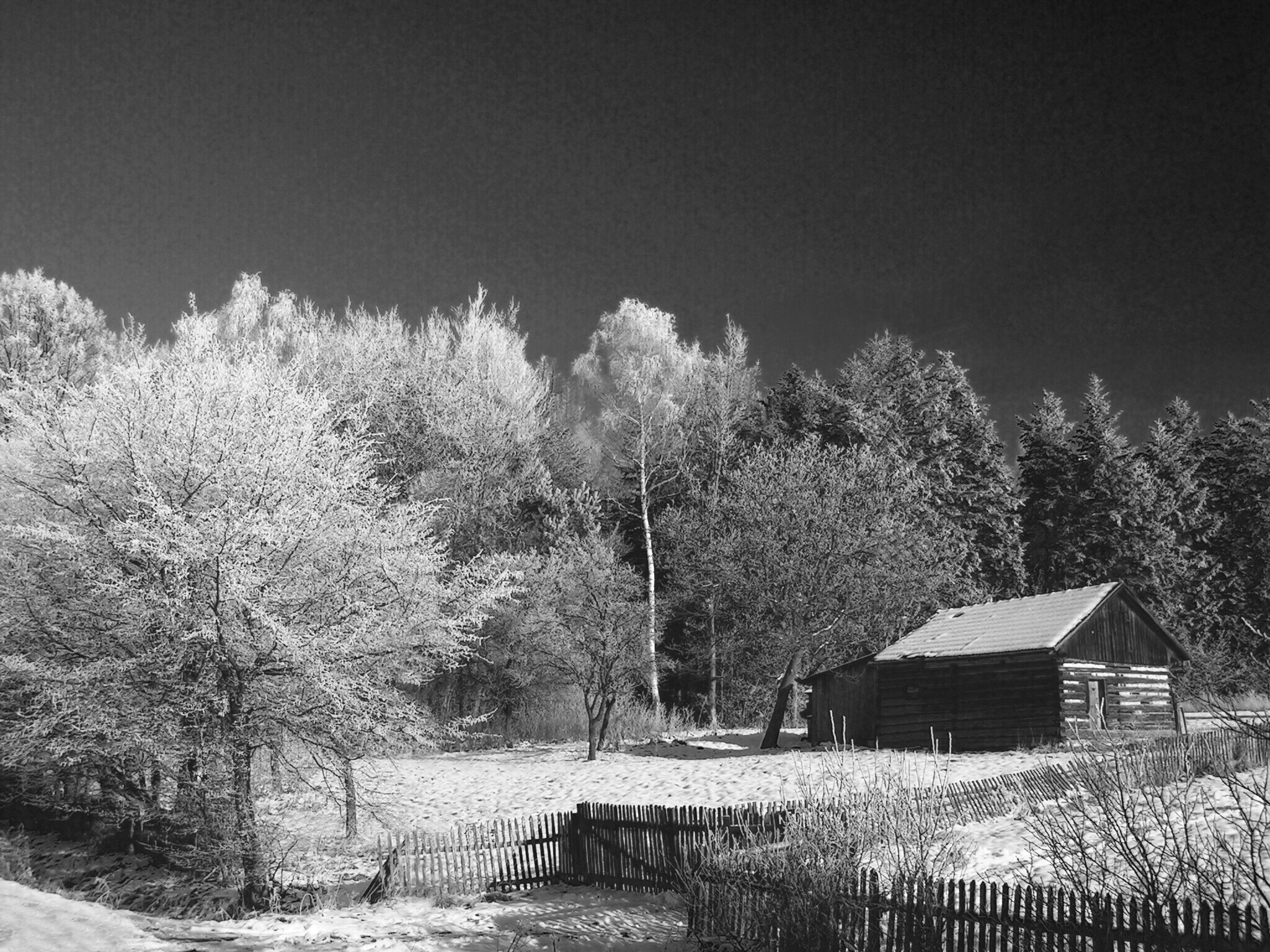 Sylvan hoarfrost